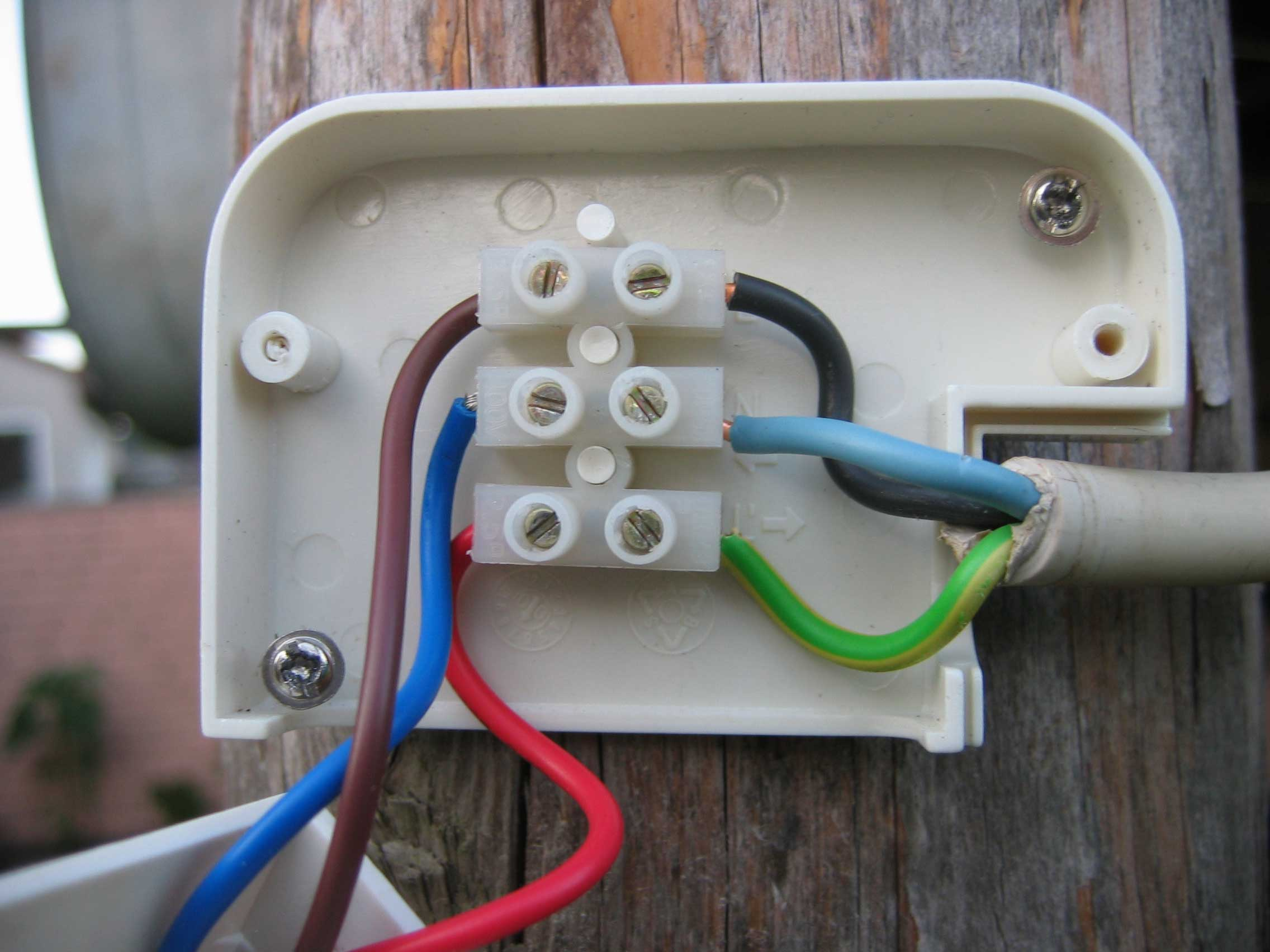 Driving device is wired by 3G cable, so phase pole is outgoing from device by yellow-green wire; if someone will connect this green-yellow wire with other PE wires (how installation rules require), all metal covers will have phase voltage on them which can cause electrical shock. Correct ways: 1) It's need to use 3x cable instead of 3G cable: hot will income by brown wire and outcome by black wire. 2) Wrap yellow-green wire by red tape and put marker to it.